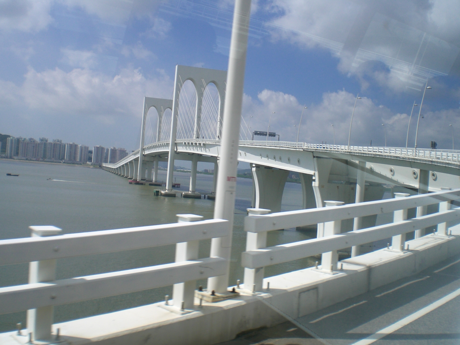 Sai Van Bridge